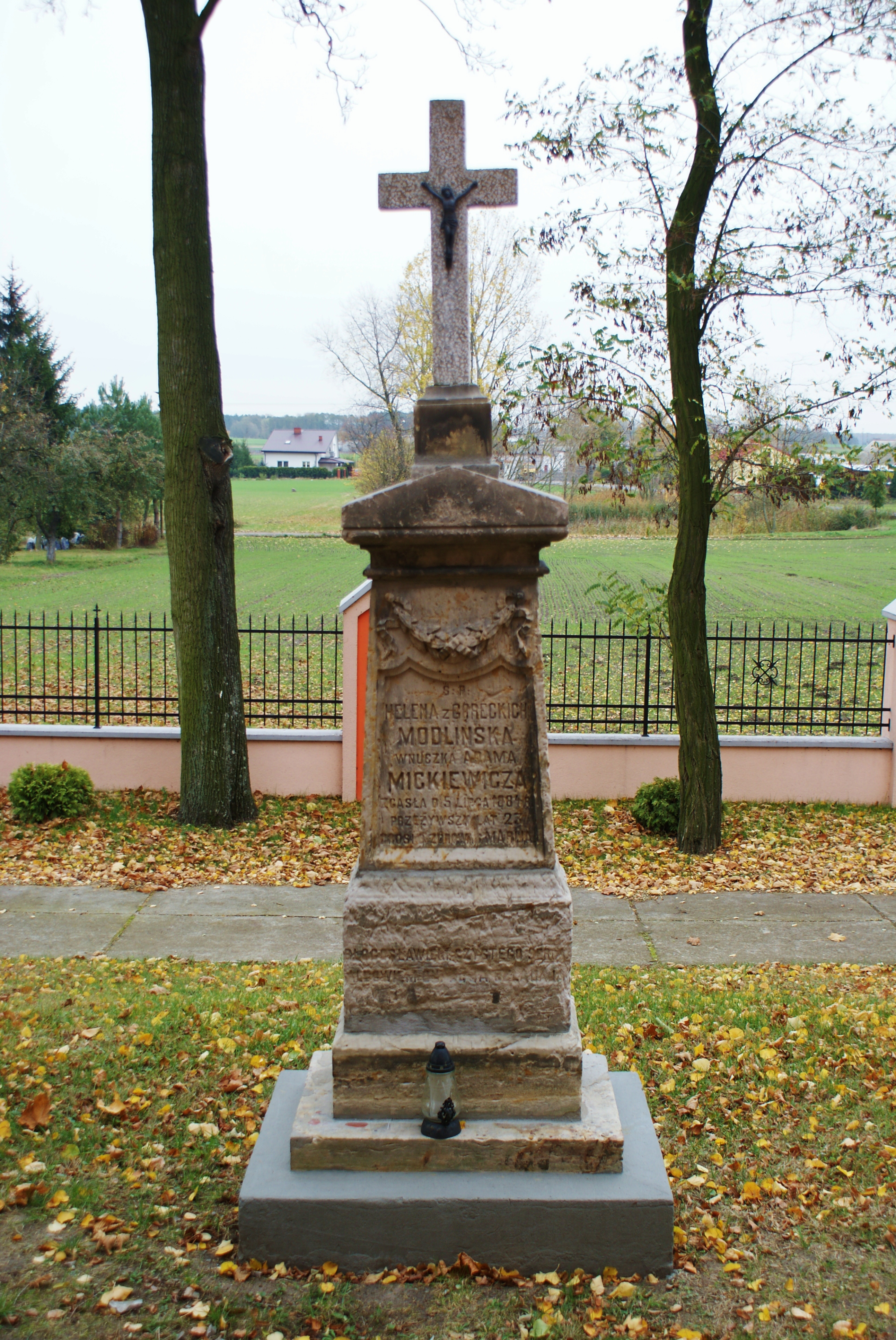 Grave of Helena Modlińska Adam Mickiewicz's granddaughter, parish church of the Holy Assumption in Krzywosądz, Kuyavian-Pomeranian Voivodeship, Poland. The inscription says:"RIP Helena Modlińska nee Górecka, Adam Mickiewicz's granddaughter, faded out on 5th of July 1884 after she had lived for 23 years, asks for Ave Maria." Bottom on the base "Blessed are those of pure heart...(lower line illegible)"